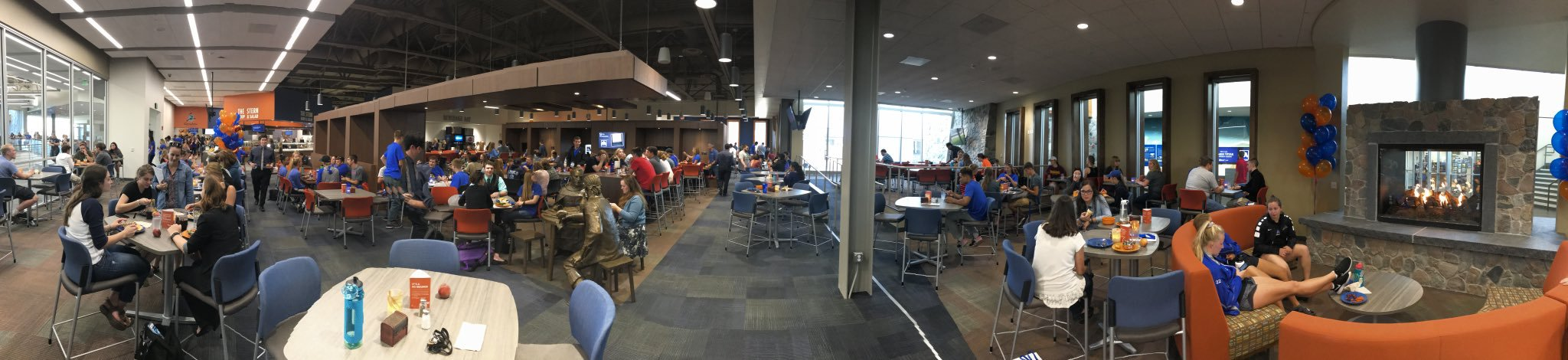 A panorama of the Crow's Nest Campus Restaurant